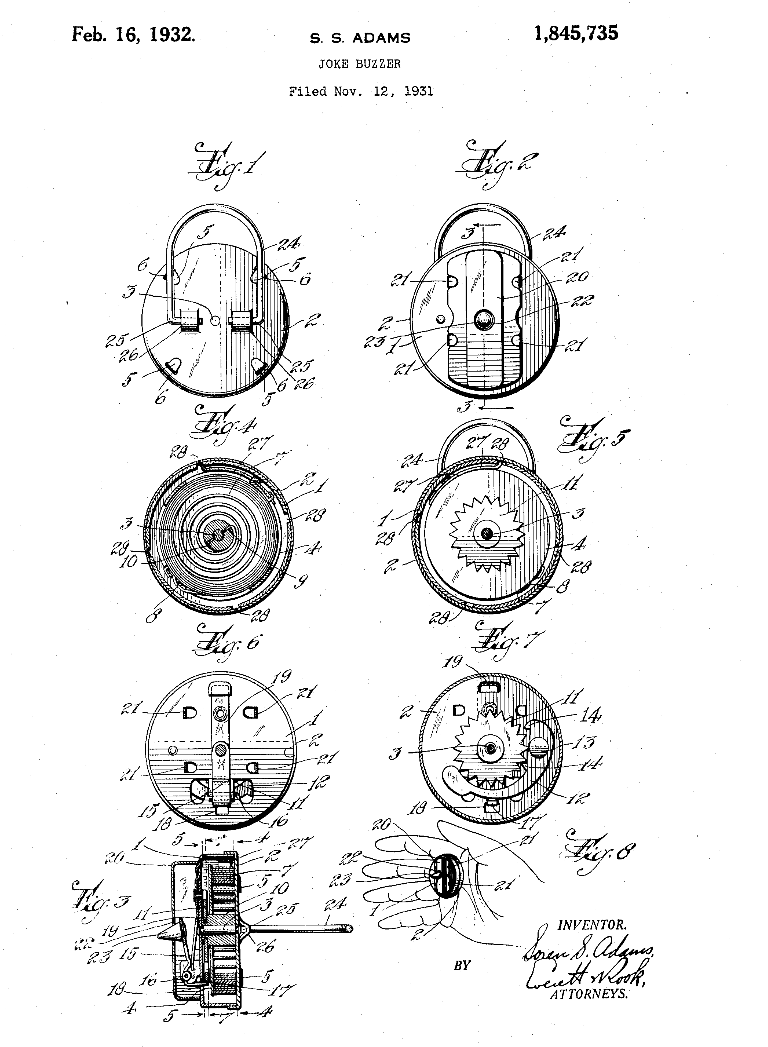 Diagram of the first joke buzzer, later joy buzzer, from United States patent application 1845735, by Soren Sorensen Adams.